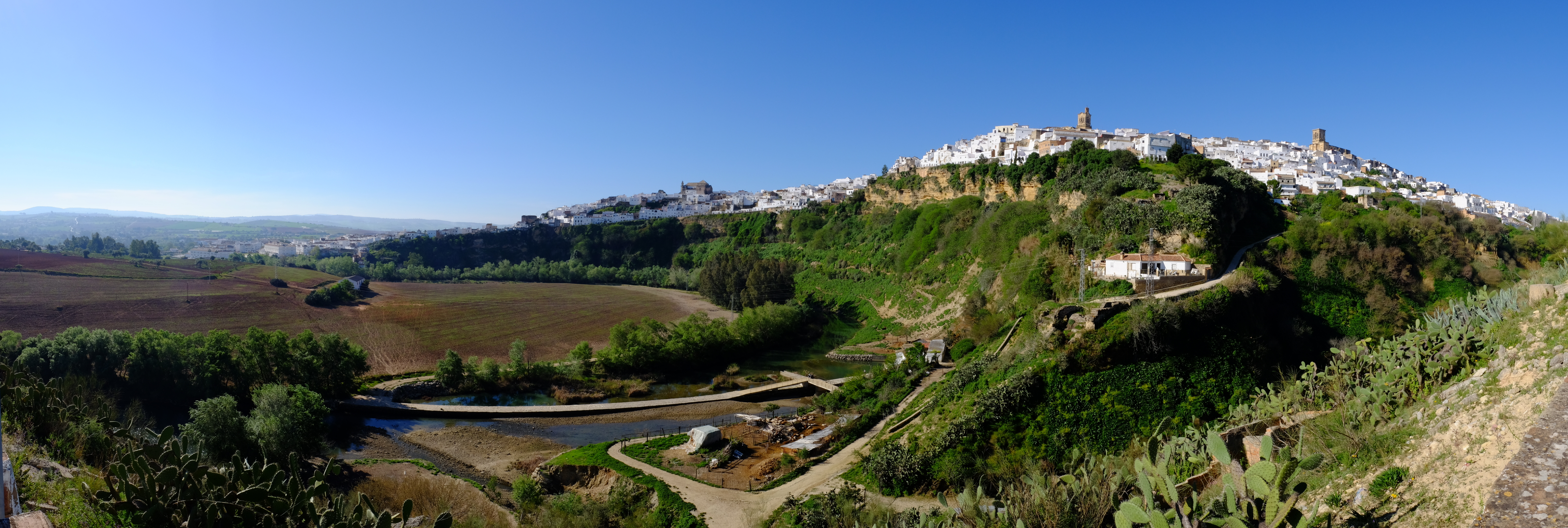 Panoramic View from La Peña Vieja (the Old Cliff) carved by the Guadalete river, and the southern side of Arcos de la Frontera (Andalusia, Spain).